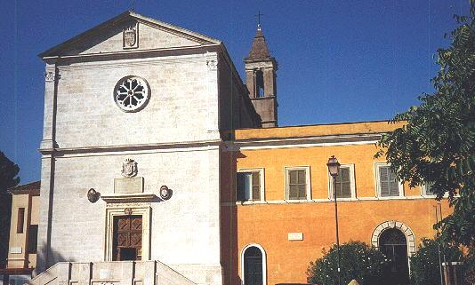 San Pietro in Montorio